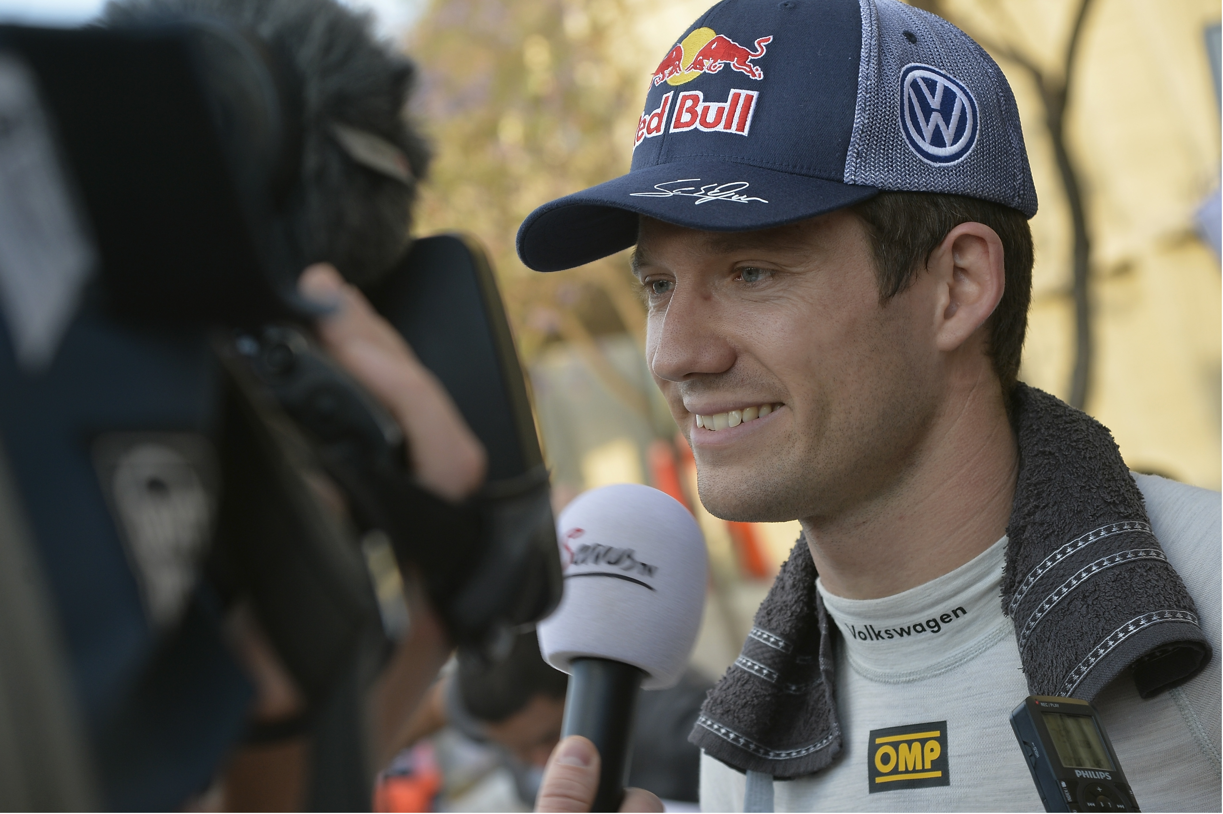 Sébastien Ogier at the 2014 Rally Mexico. The third rally of the 2014 World Rally Championship.